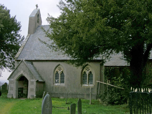 Capel Garmon The church at Capel Garmon was originally a chapel of ease to LLanwrst. The current church was consecrated in 186. There have been several churches on this site. The church has been closed for a number of years.